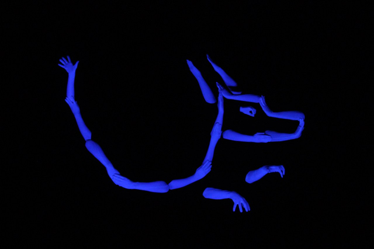 Dragon made with hands